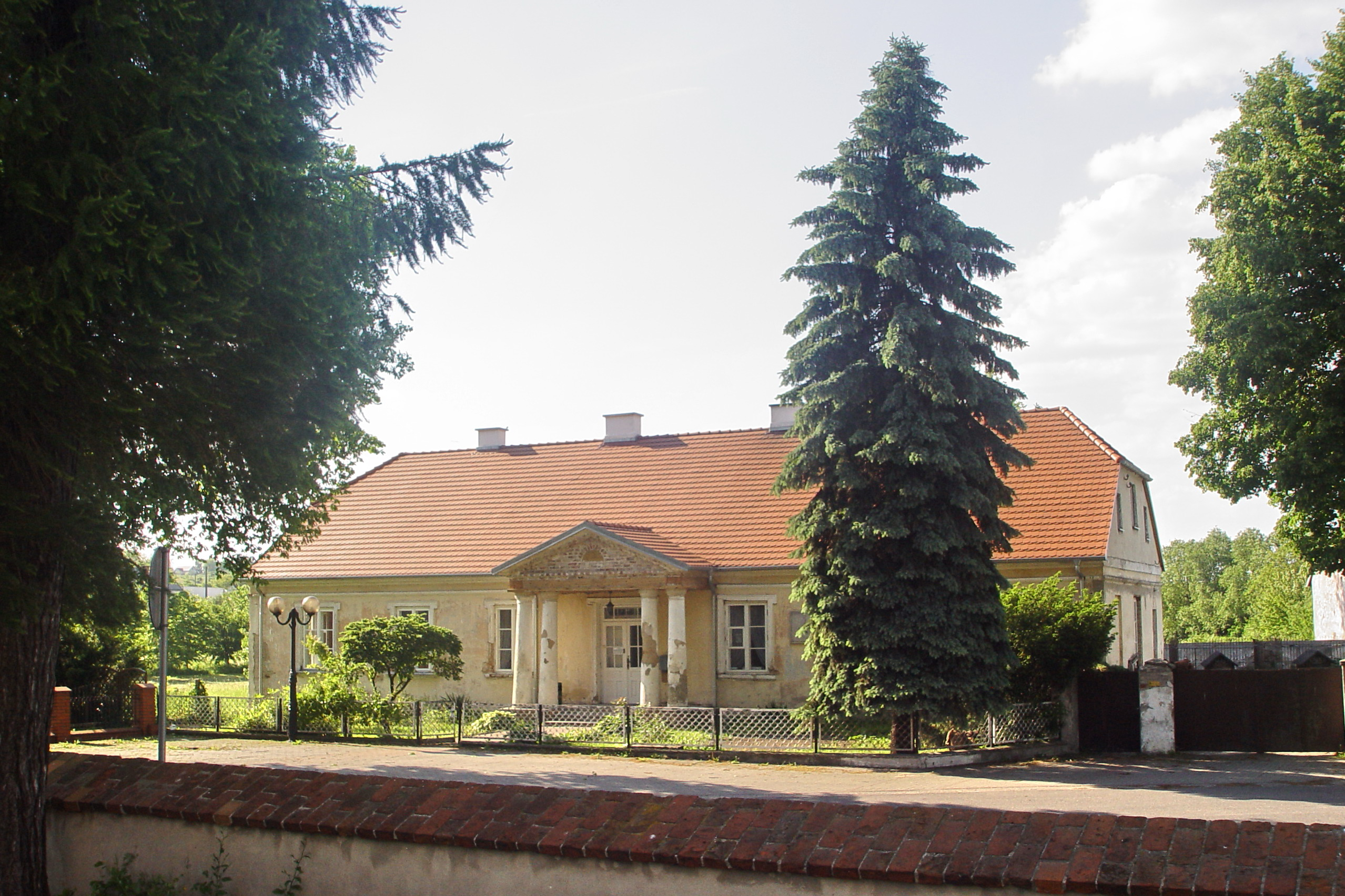 Nieszawa - parsonage, the house where in 1867 was born Stanislaw Noakowski